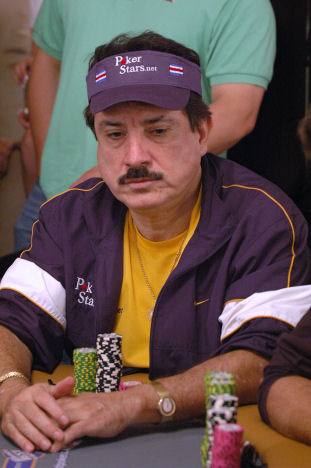 Humberto Brenes at 2006 WSOP Rio, Las Vegas